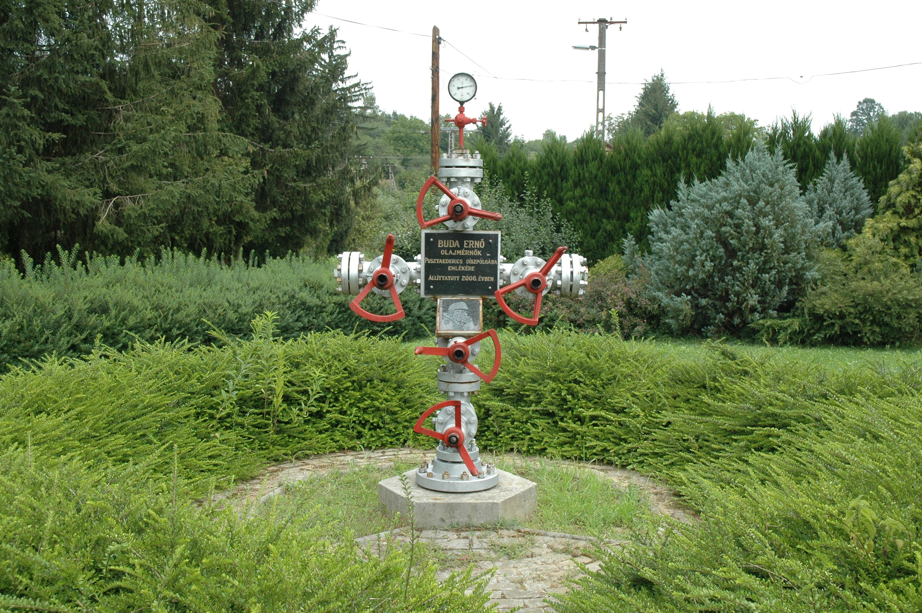 Memorial to Buda Ernő in Pusztaederics (Zala County, Hungary)